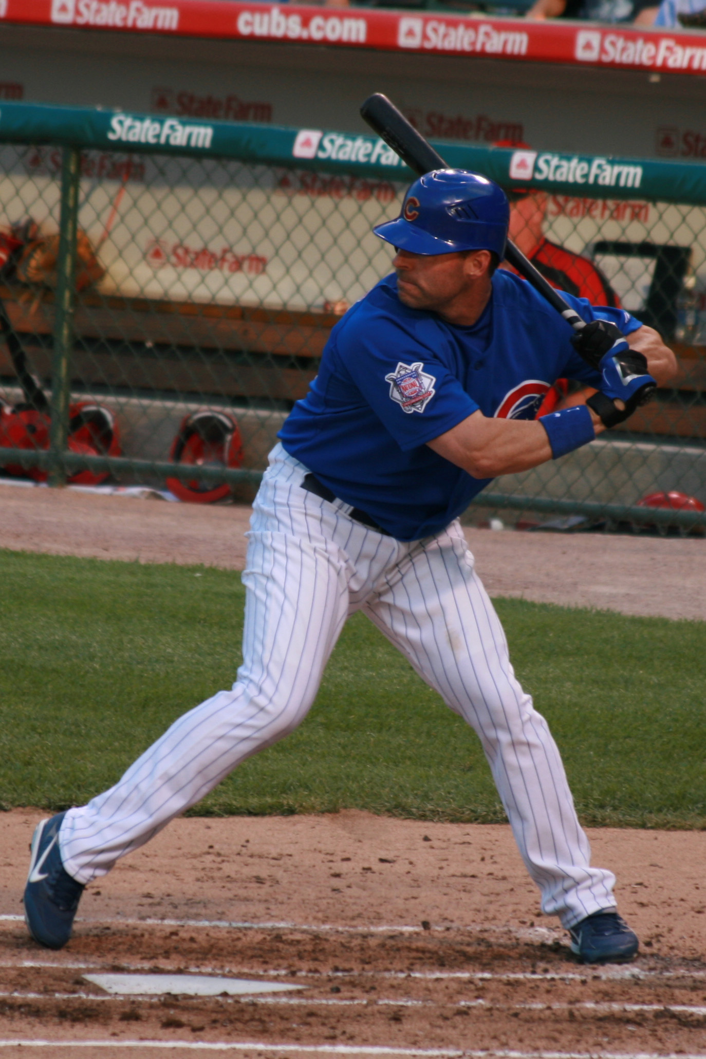 Jim Edmonds of the Chicago Cubs at bat (cropped).